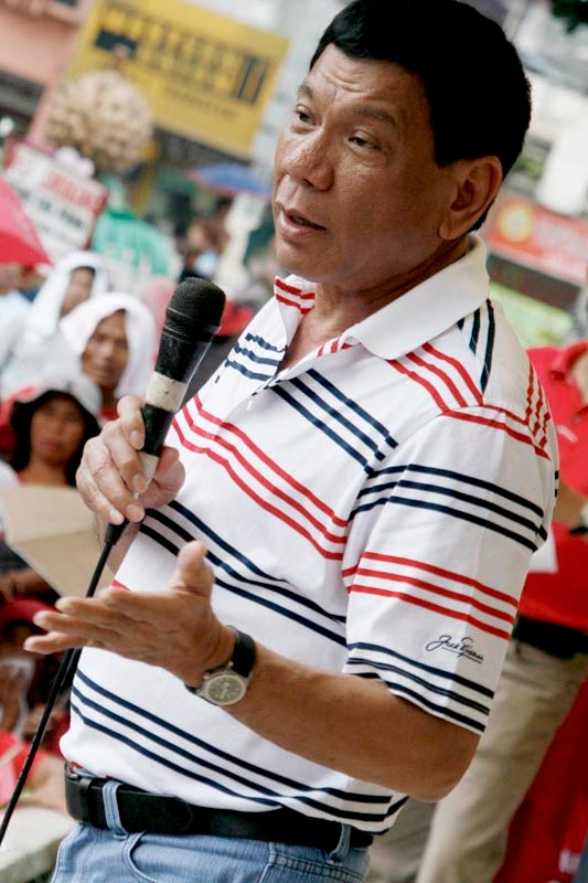 Davao City Mayor Rodrigo Duterte speaks before the protesting residents in the city who are calling for the moratorium on housing foreclosure in several housing projects in the city. At least 5,000 homeowners coming from different subdivisions in the city and even from neighboring towns and cities marched around the city on Wednesday afternoon, February 11, 2009 to oppose the transfer of an estimated P13 billion worth of housing loans with the National Home Mortgage Finance Corporation (NHMFC) to a private entity known as Balikatan Housing Finance Inc. (BHFI). AKP Images / Keith Bacongco